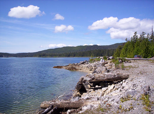 A Scenic view of Edna Bay, AK taken July 2006 by Roger DiPaolo